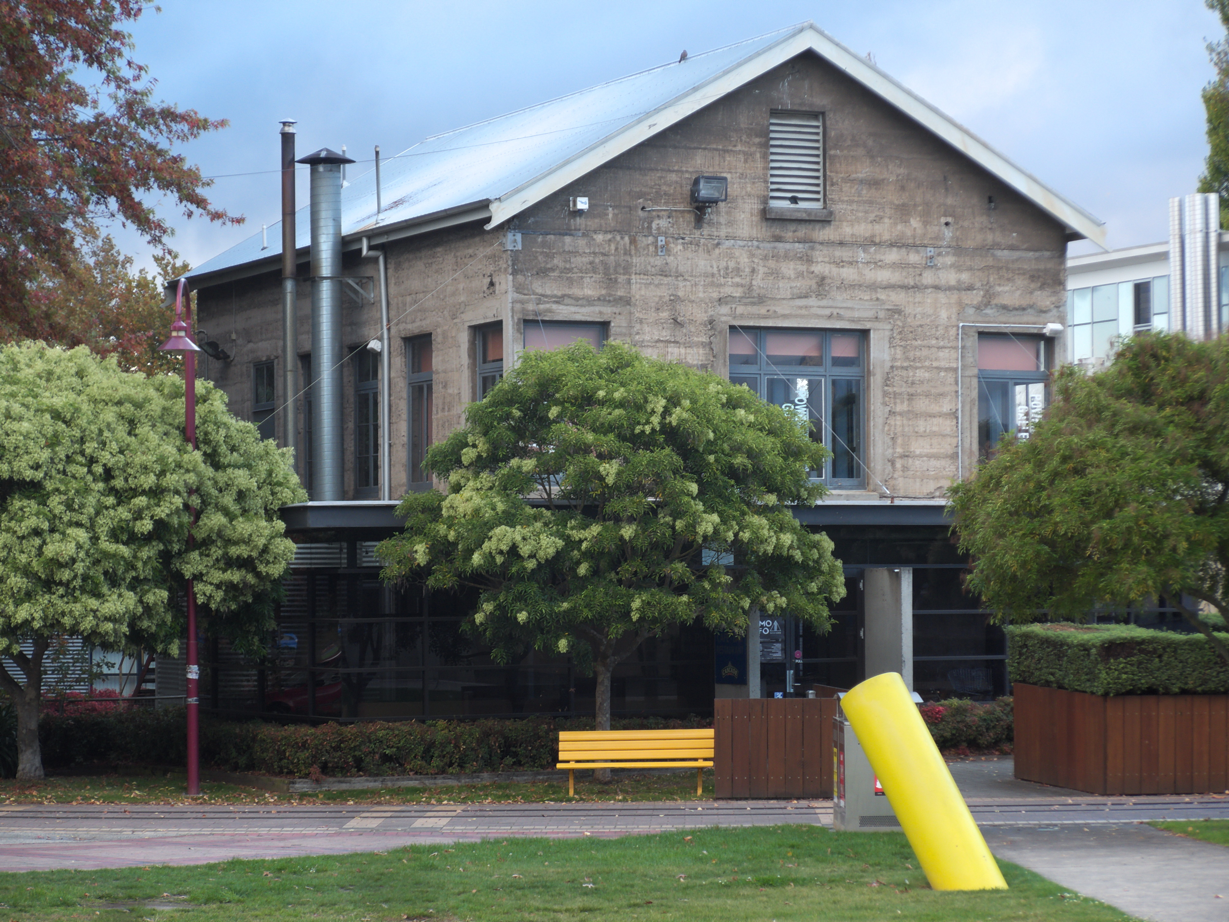 Building in Inveresk, Launceston, Tasmania. The top floor contains the Powerhouse Gallery, a University of Tasmania gallery for temporary art exhibitions, established in 2009. The lower floor was the Blue Café but as of April 2019 is vacant.